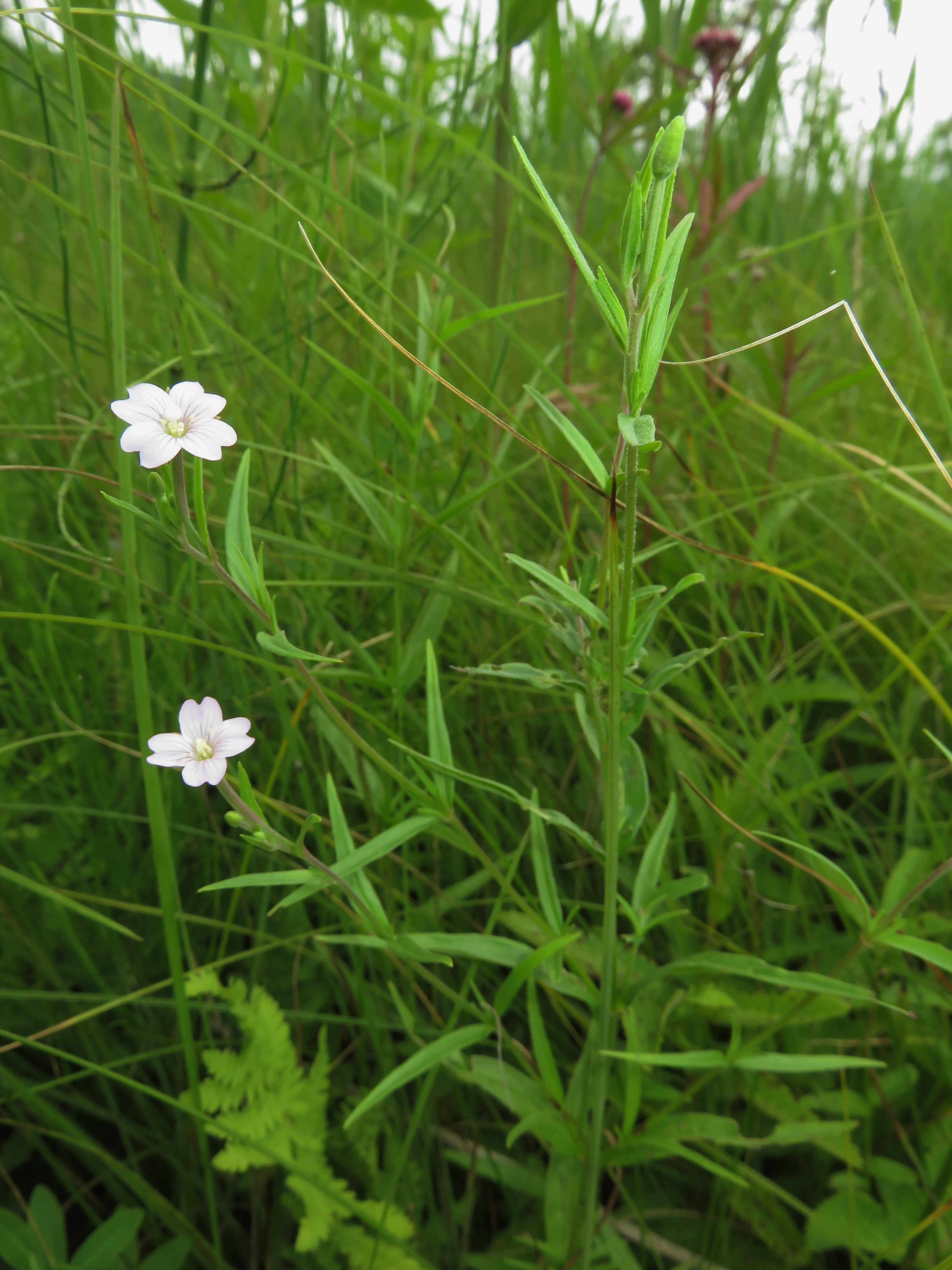 Epilobium palustre, Oze-gahara, Fukushima pref., Japan